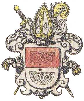 coat of arms of archdiocese of Magdeburg (Germany)